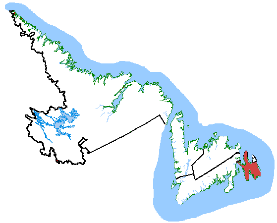 Map of the Avalon electoral district. Based on Earl Andrew's maps, created by SimonP.